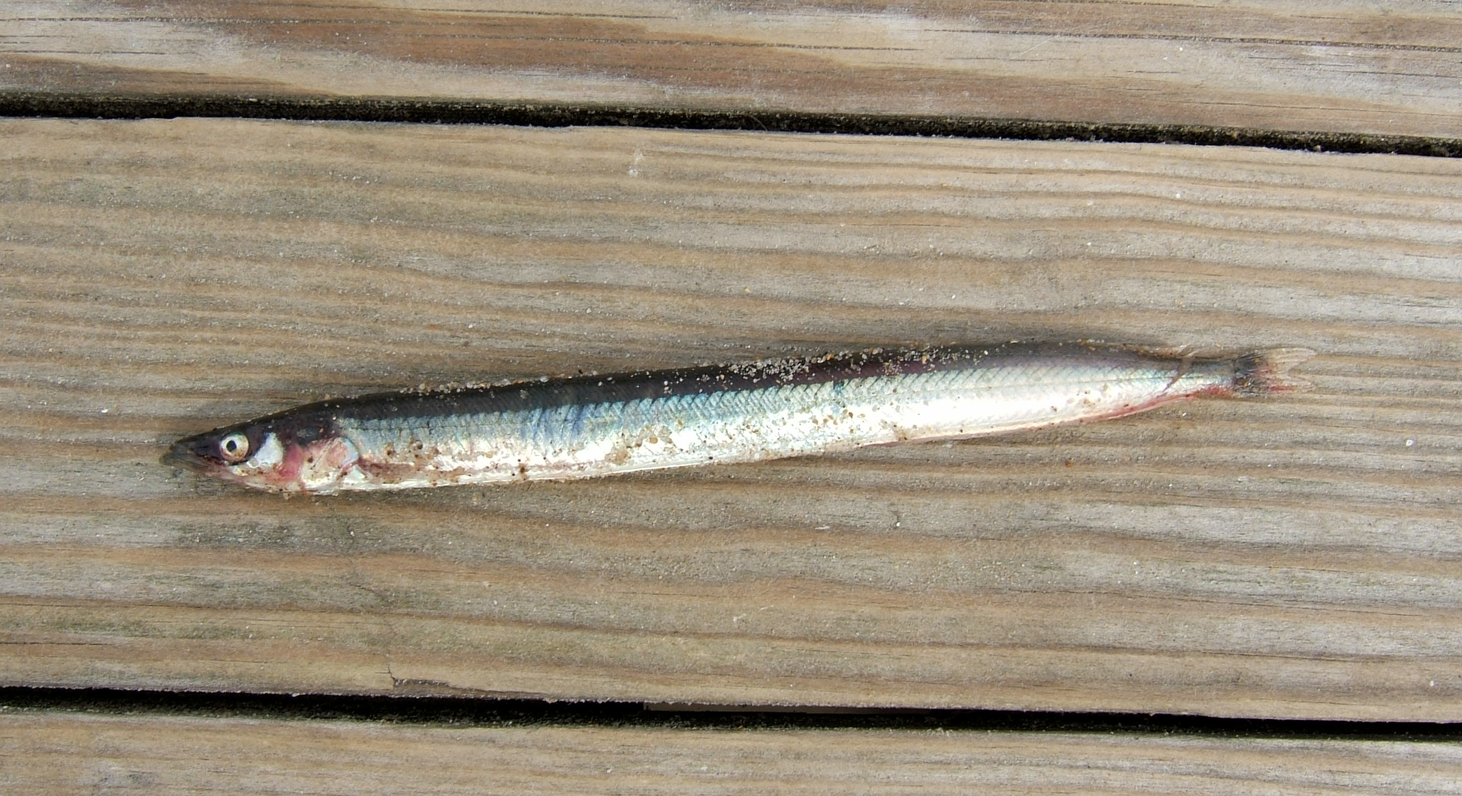 Ammodytes tobianus, caught and dropped by an Arctic Tern at a breeding colony, Long Nanny, Northumberland. This species is the main food for Arctic Terns in the region.